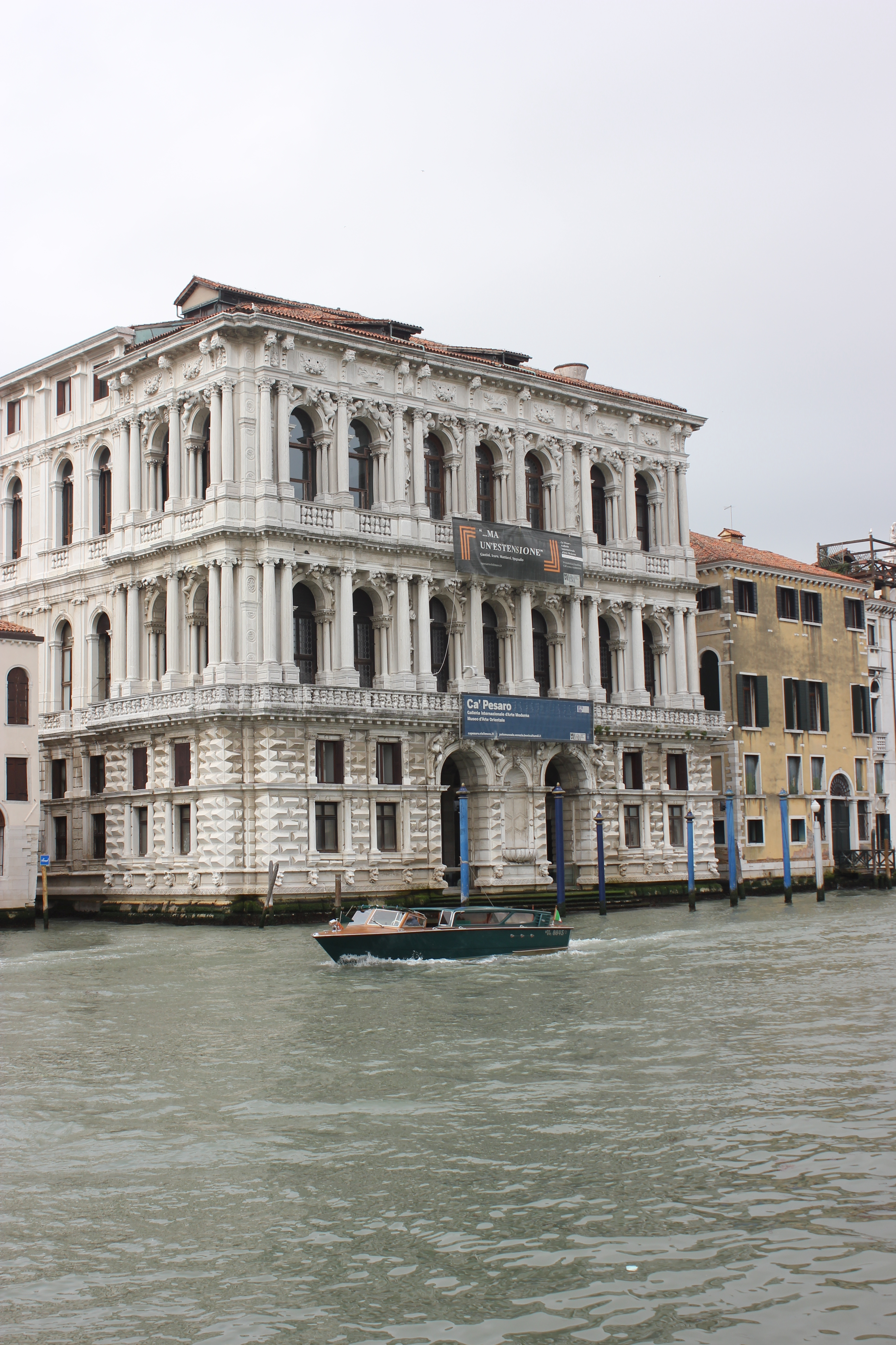 Venice - Ca' Pesaro